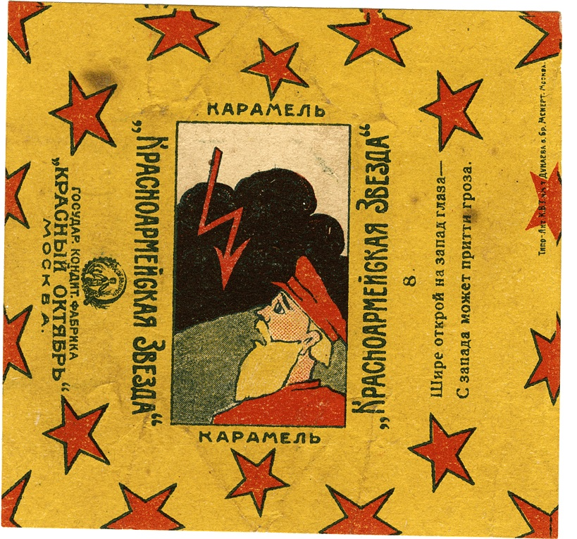 Wrapper caramel "Red Army Star" for "Mosselprom". Drawing and text by Vladimir Mayakovsky. Moscow. 1920-s